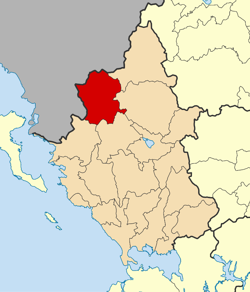 Locator map for Pogoni municipality in Greek region Epirus (2011)